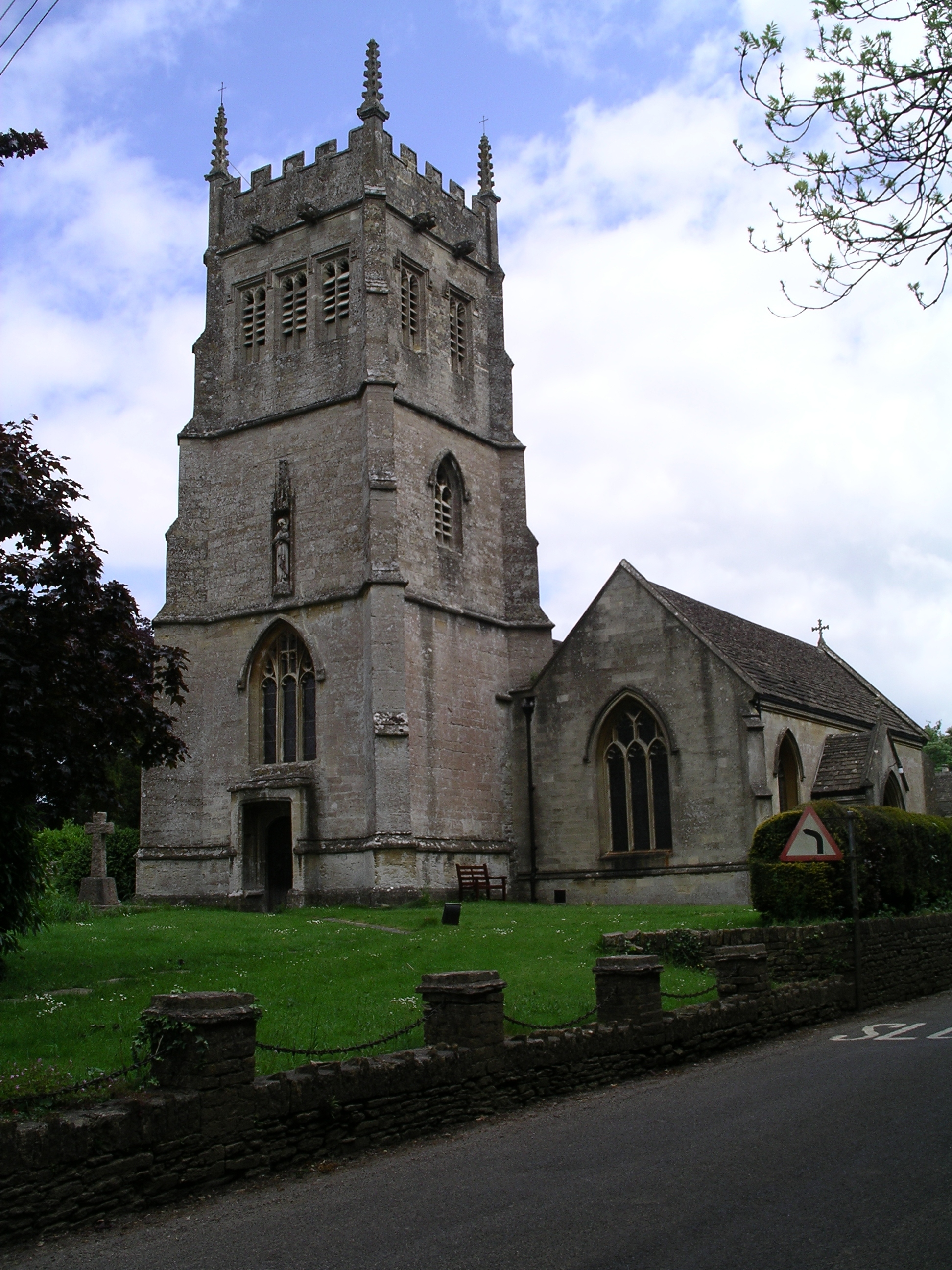 Parish church of St Mary the Virgin, Grittleton, Wiltshire, seen from the southwest